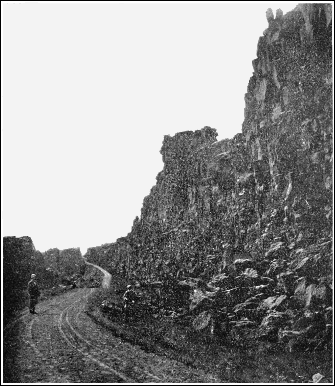 Almannaja wall and road